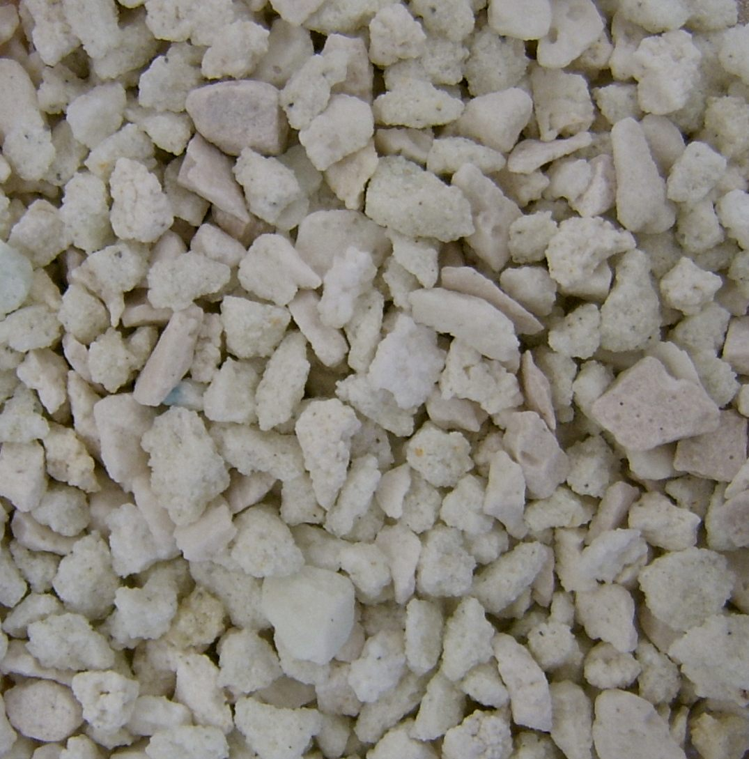 You see small stones used in chemistry-labs to prevent boiling. In german, they are called "Siedesteinchen"